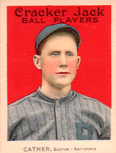 Depicted person: Ted Cather – American baseball player